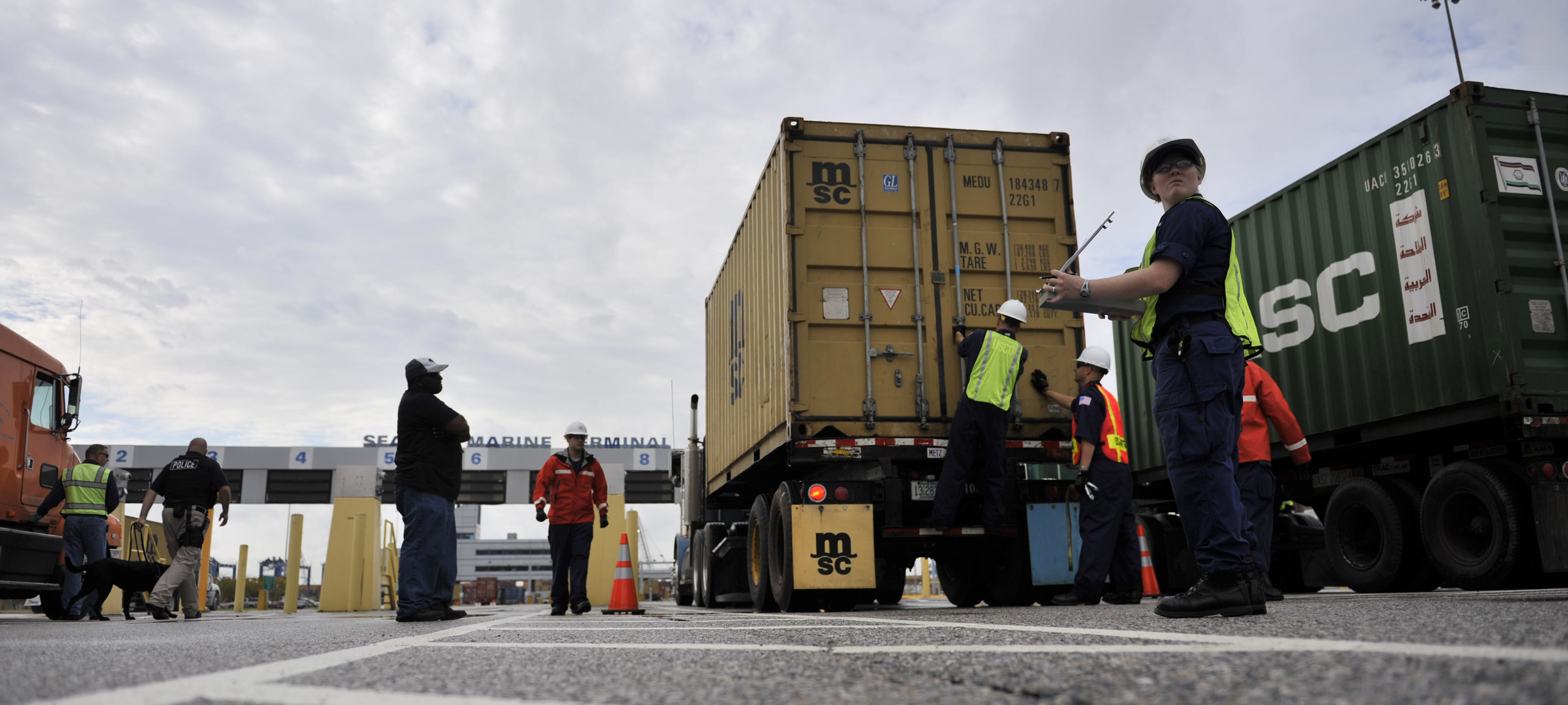 BALTIMORE - Petty Officer 3rd Class Chelsea Warren, a marine science technician in the Port Safety and Security division of Coast Guard Sector Baltimore, watches for trucks entering the Maryland Port Administration's Seagirt Marine Terminal during a multi-agency strike force operation, Oct. 27, 2010. This joint operation involved the inspection of trucks as they entered and left the marine terminals with shipments from both domestic and international locations. U.S. Coast Guard photo by Petty Officer 2nd Class Brandyn Hill.